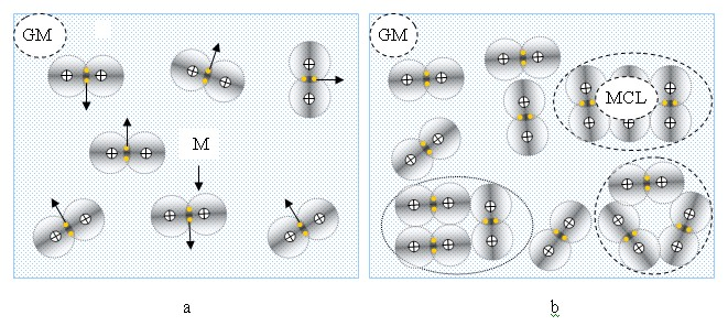 Molecular power 43. Approximation to the model of real gas of diatomic molecules. Transition from weak chemical interaction of molecules to strong chemical interaction of molecules